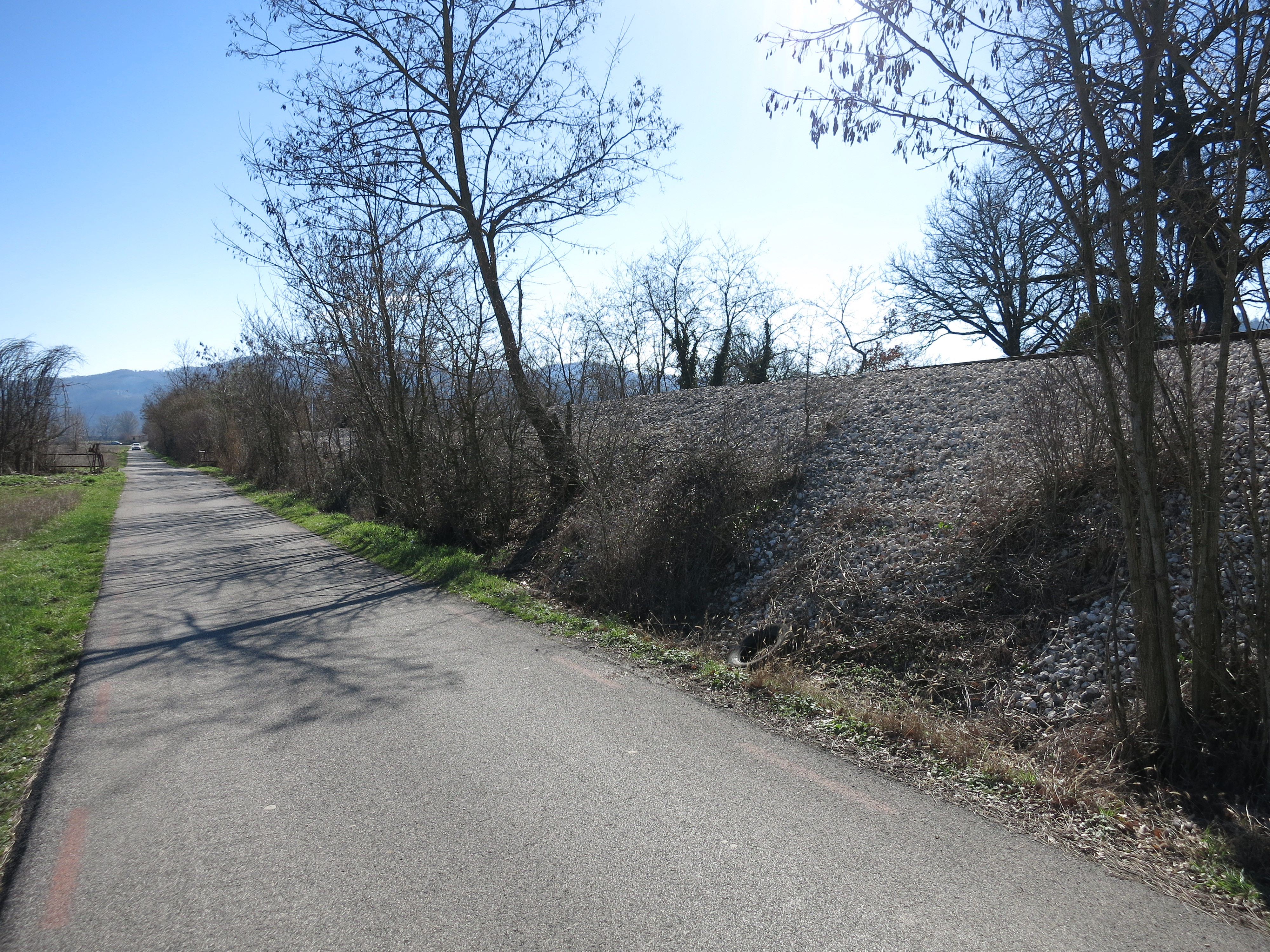 Ciclovia della Conca Reatina, bikeway in the province of Rieti (Lazio, Italy)